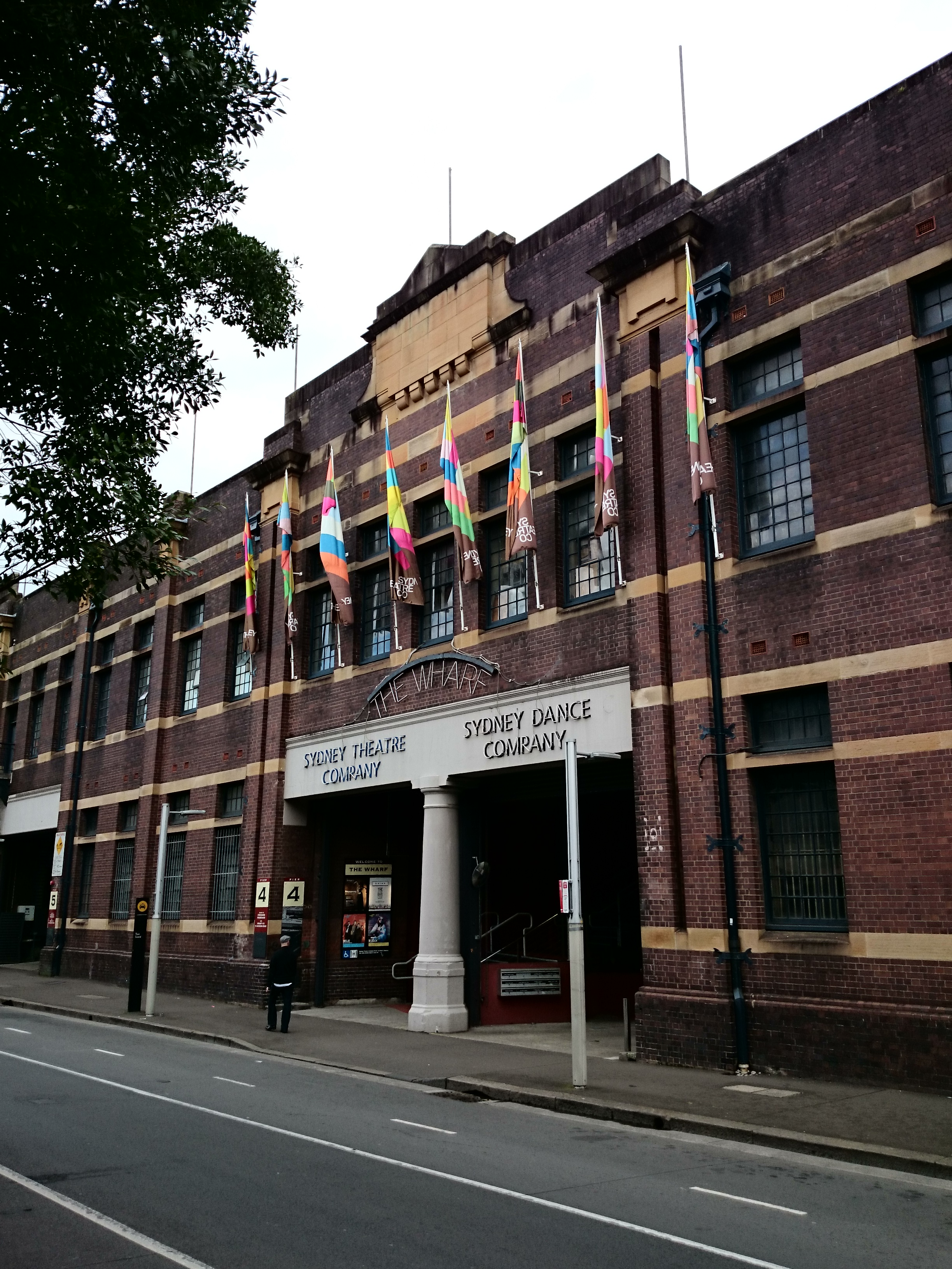 The Wharf Theatre at The Rocks